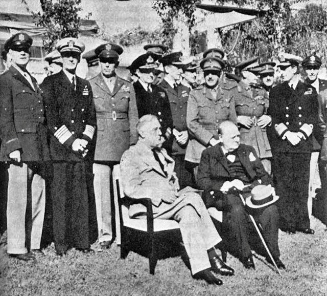 Description: Casablanca-Conference - Seated: President Roosevelt and Prime Minister Churchill. Standing, front row, left to right: General Arnold, Admiral King, General Marshall, Admiral Pound, Air Chief Marshal Portal, General Brooke, Field Marshal Dill, and Admiral Mountbatten. January 1943.